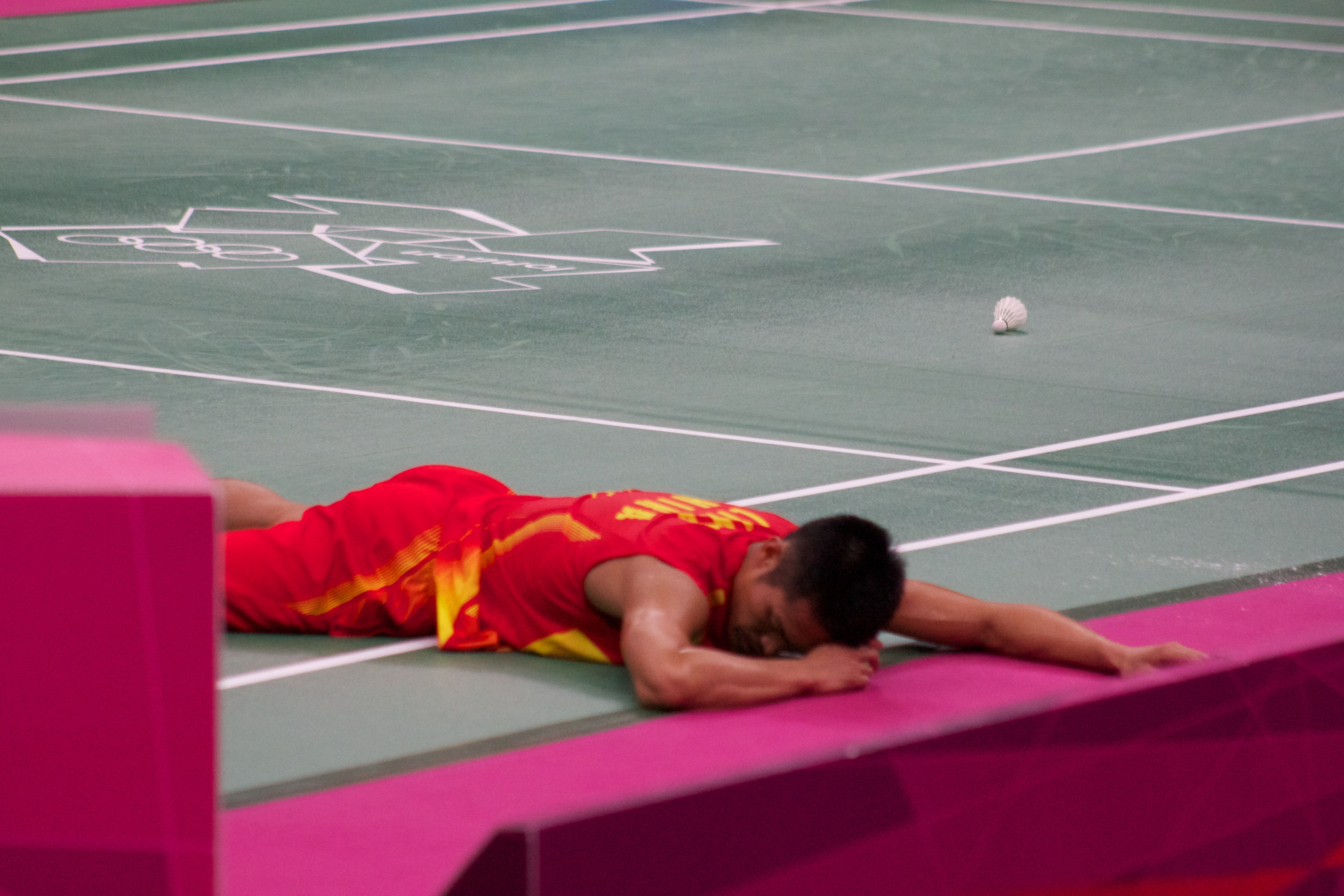 Badminton at the 2012 Summer Olympics